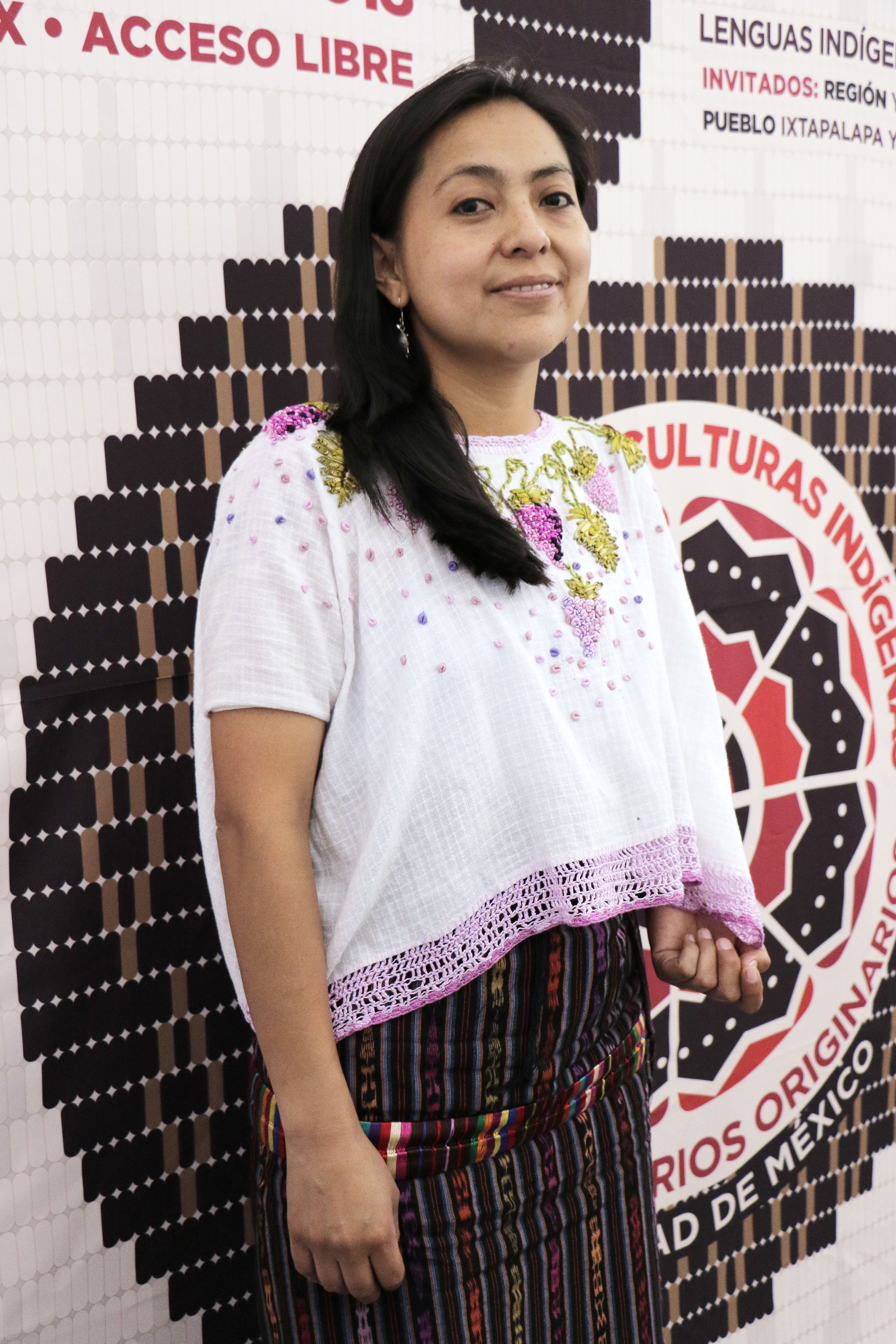 Friday, August 31, 2018 As part of the activities of the fifth Festival of Indigenous Cultures, Peoples and Original Neighborhoods of CDMX, an interview was done with the guest from Guatemala, María Jacinta Xón. Photos by: Tania Victoria/ Secretary of Culture CDMX